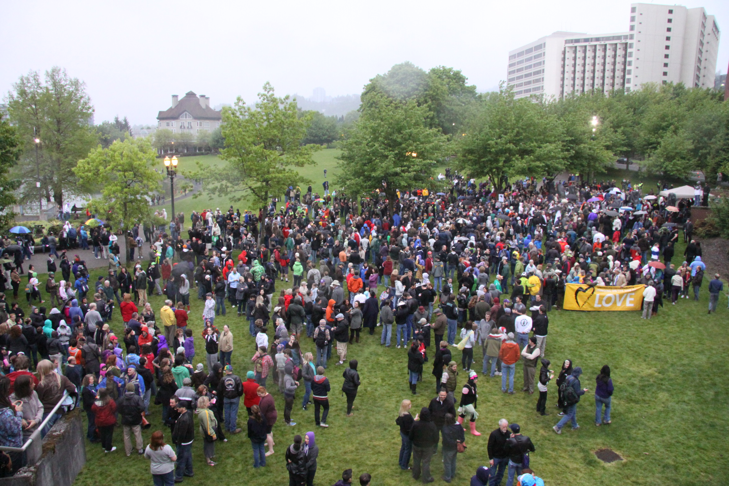 Hands Across Hawthorne at the Hawthorne Bridge in Portland, Oregon. Taken May 29, 2011, by Marty Davis / Just Out Newsmagazine.